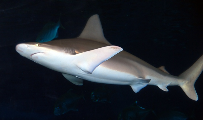 Sandbar shark (Carcharhinus plumbeus) at Maui Ocean Center.